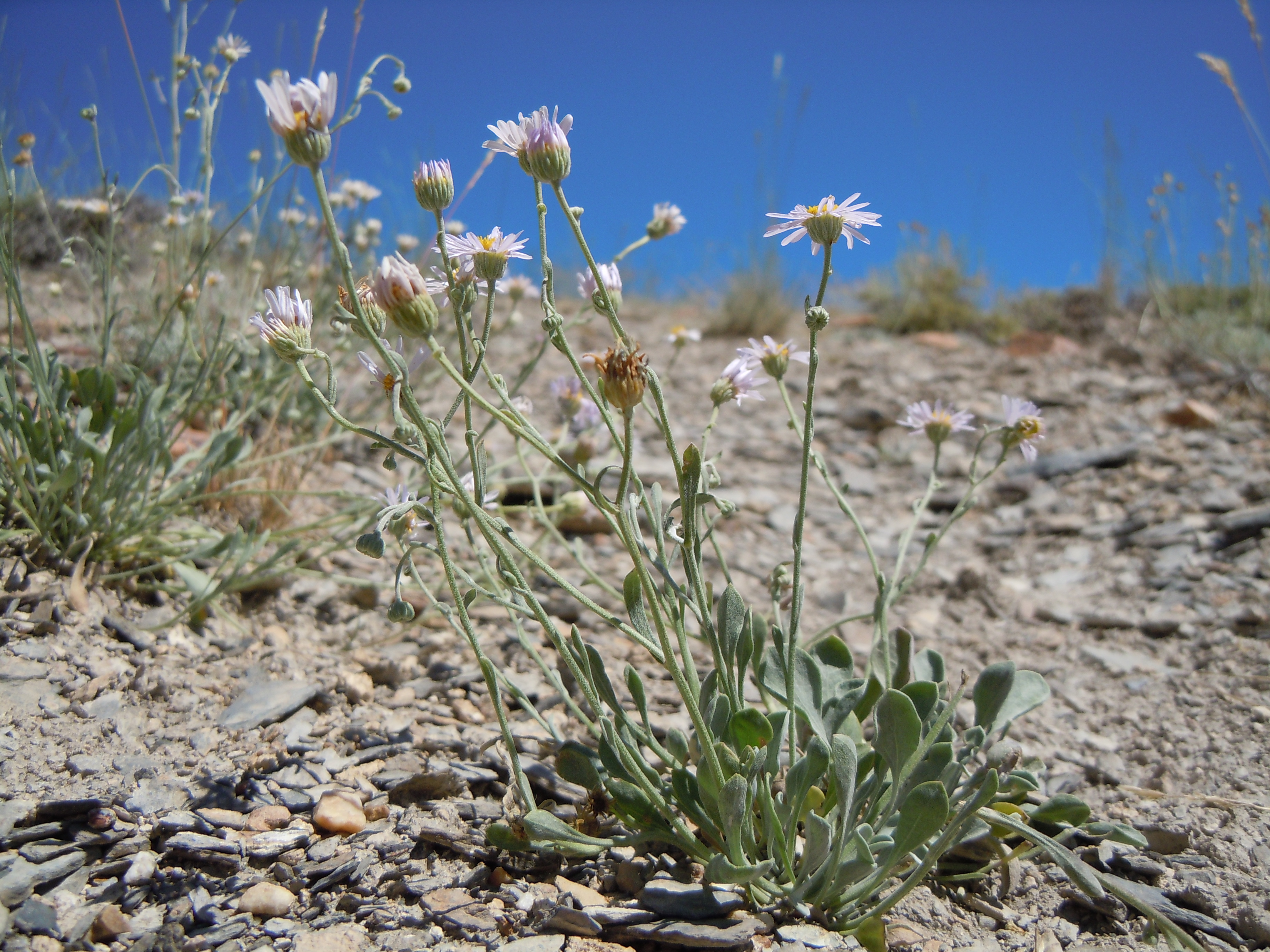 The combination of mid summer flowering, lavender ray petals, and spatulate grayish leaves, and decumbent stems is distinctive of this species.